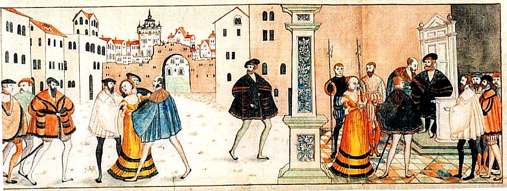 Part 1 of a five part series whereby Swedish monarch Gustav Vasa shows how he triumphed. The images were originally made during the reign of Gustav Vasa -- the last image shows event occurring in the 1540's. This image is believed to show Stockholm in 1525. The lady in yellow dress symbolizes the Catholic Church whom Gustav now overpowers.